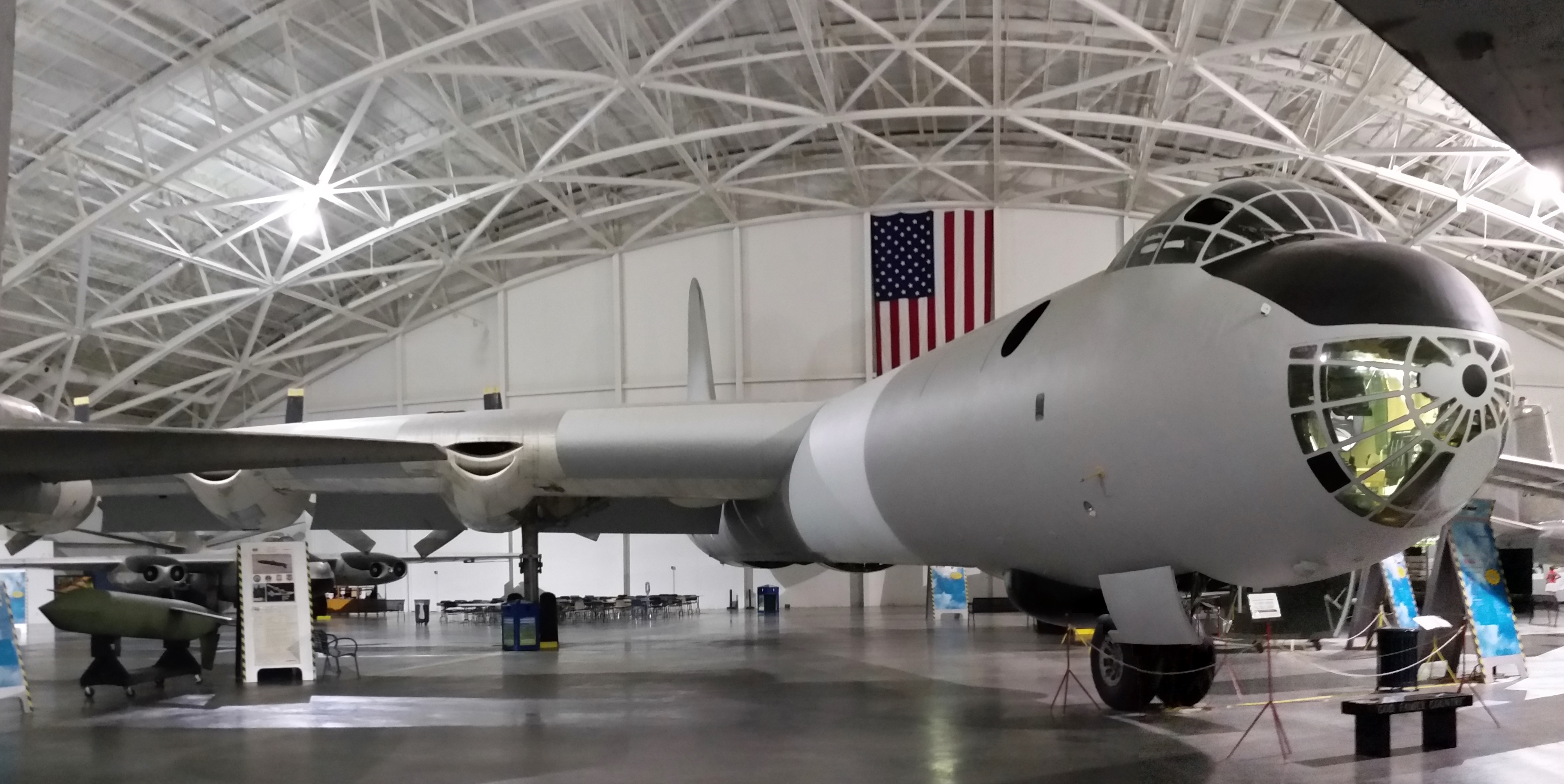 B-36J AF Serial Number 52-2217 on display at the Strategic Air and Space Museum.